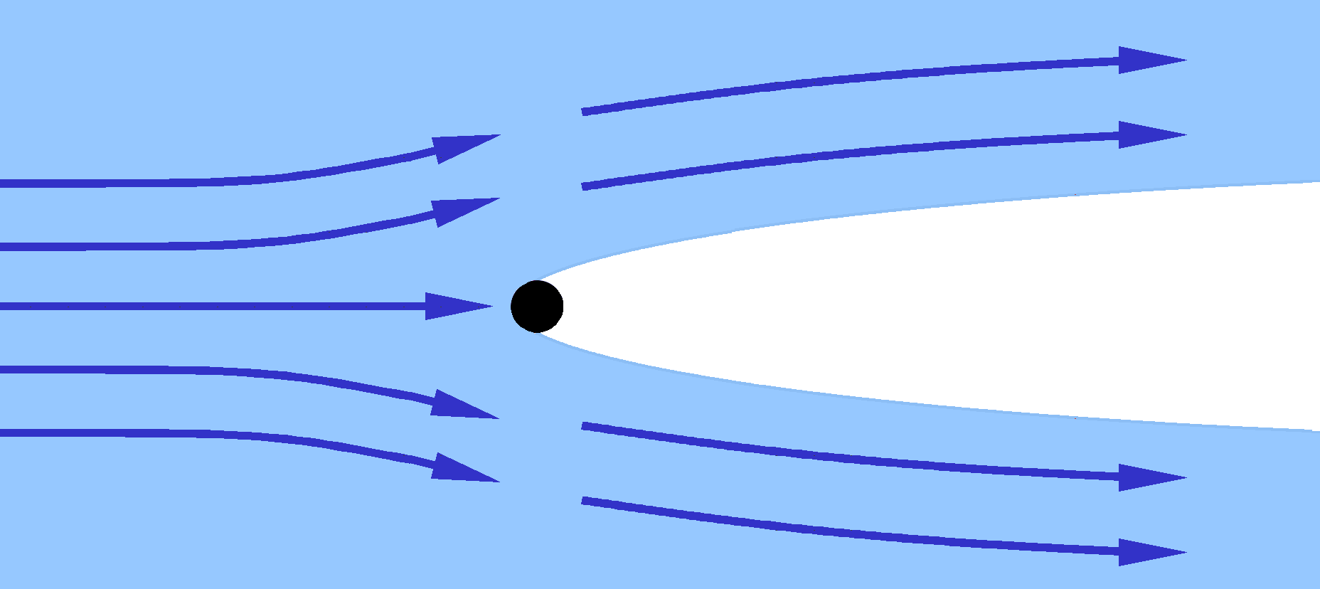 A cavitation forms behind an object passed by a rapidly streaming liquid